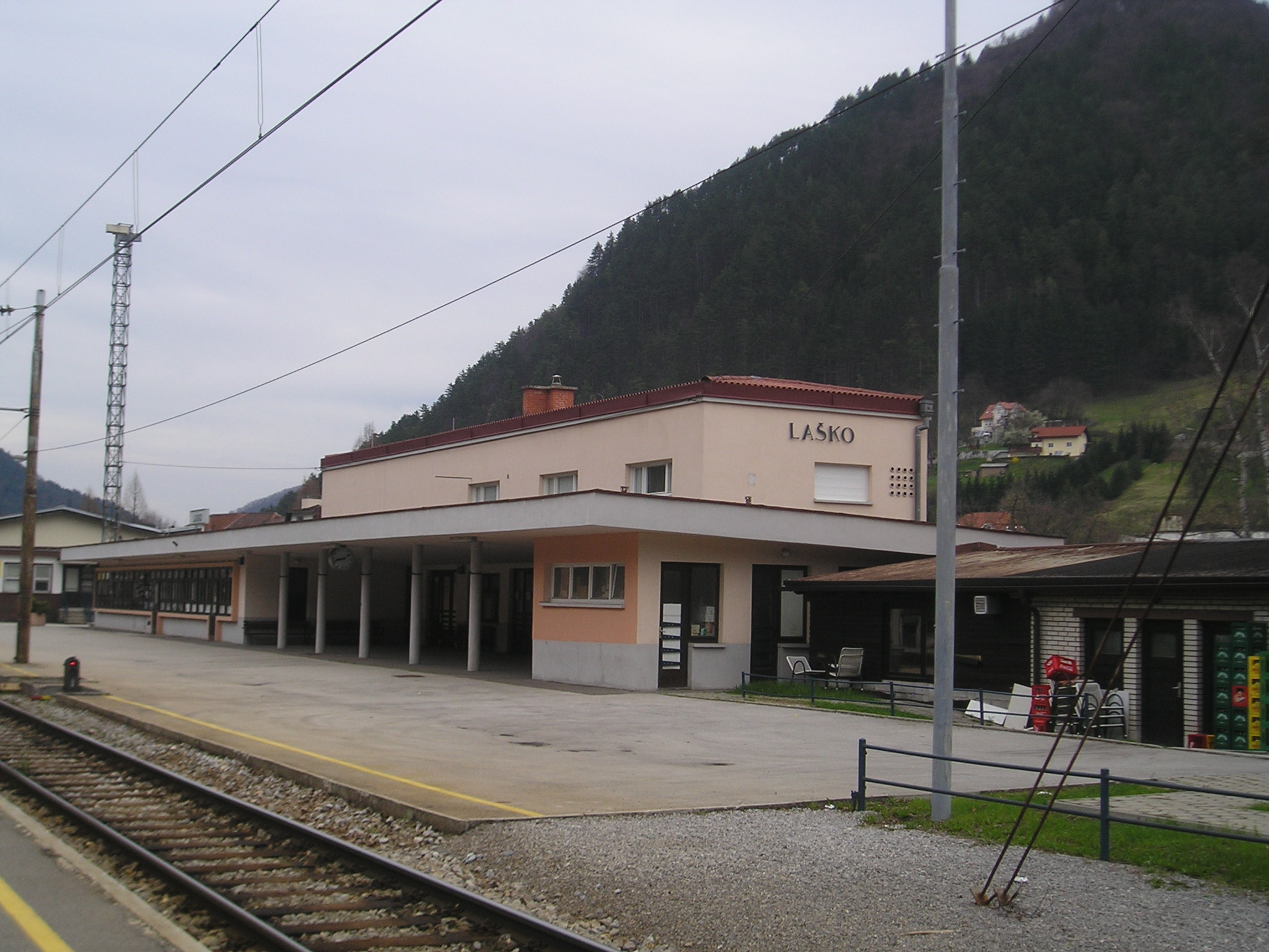 Train station in Laško, Slovenia